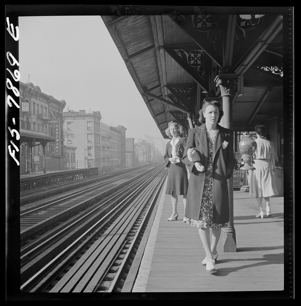 New York, New York. Waiting for the Third Avenue elevated railway in the "Sixties" about 8:45 a.m.